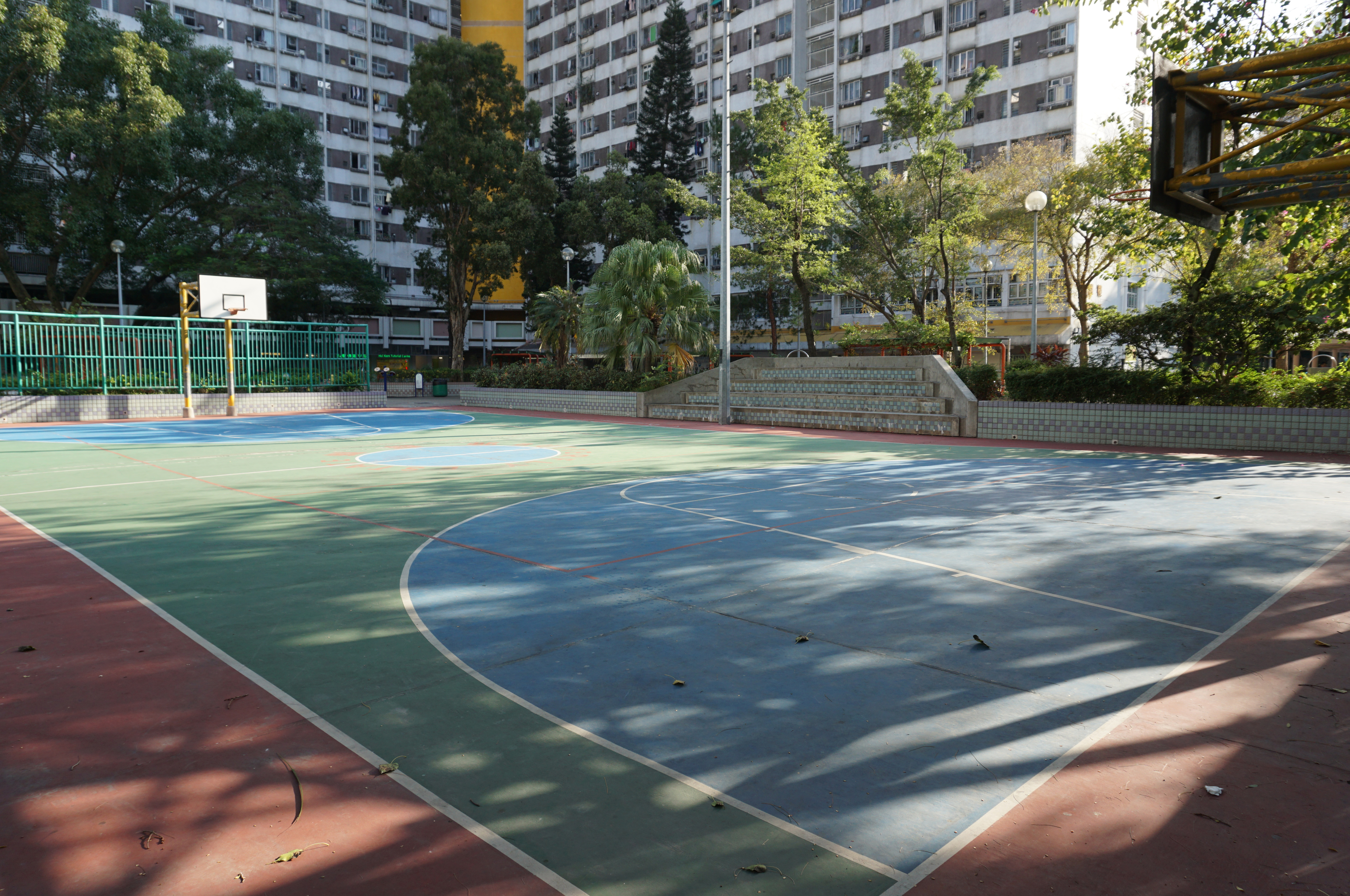 Butterfly Estate in Tuen Mun, Hong Kong.